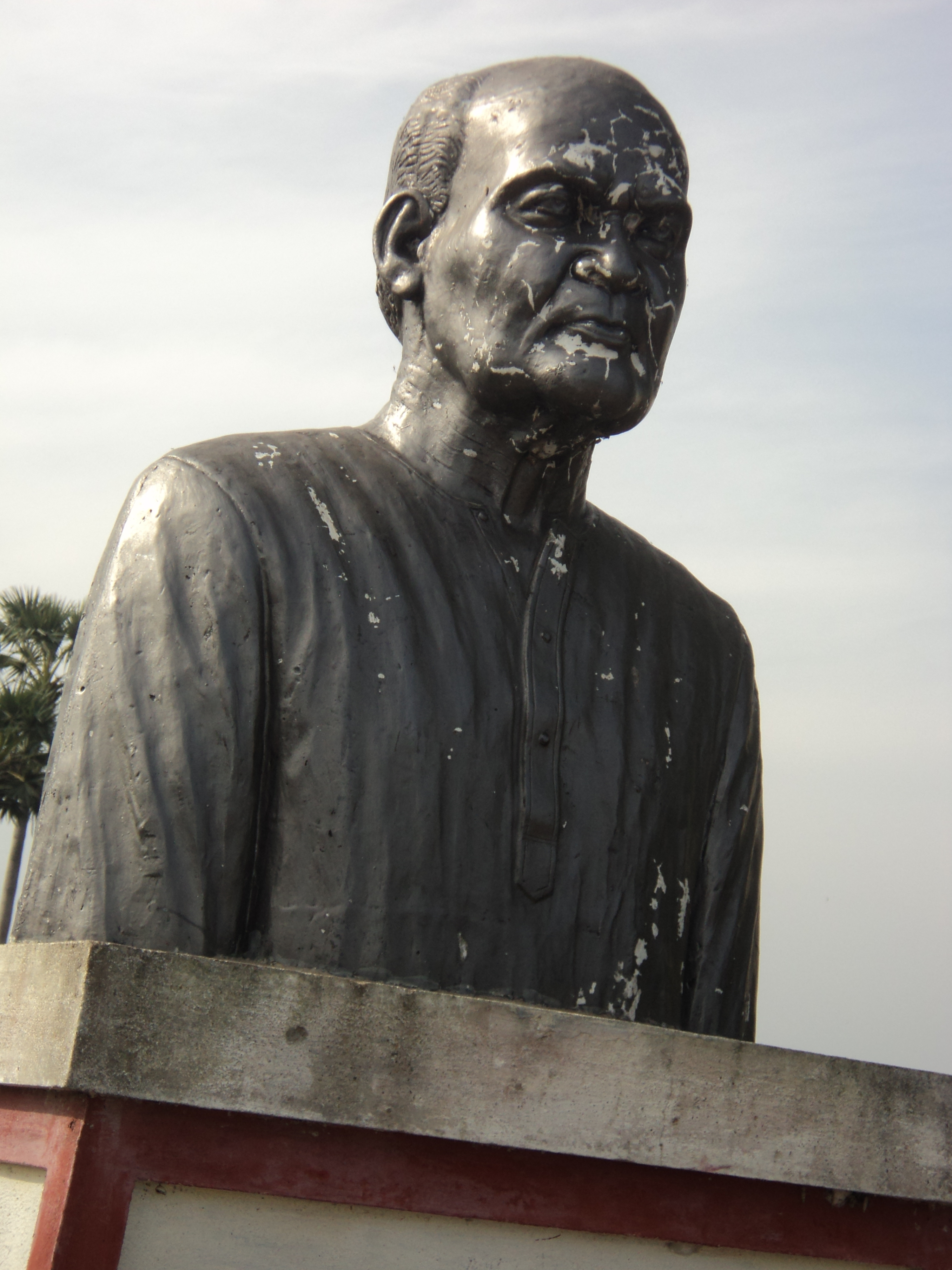 This is photograph of Statue of Vaddadi Papayya in Srikakulam taken by me.Rajasekhar1961 (talk) 12:39, 23 February 2012 (UTC)